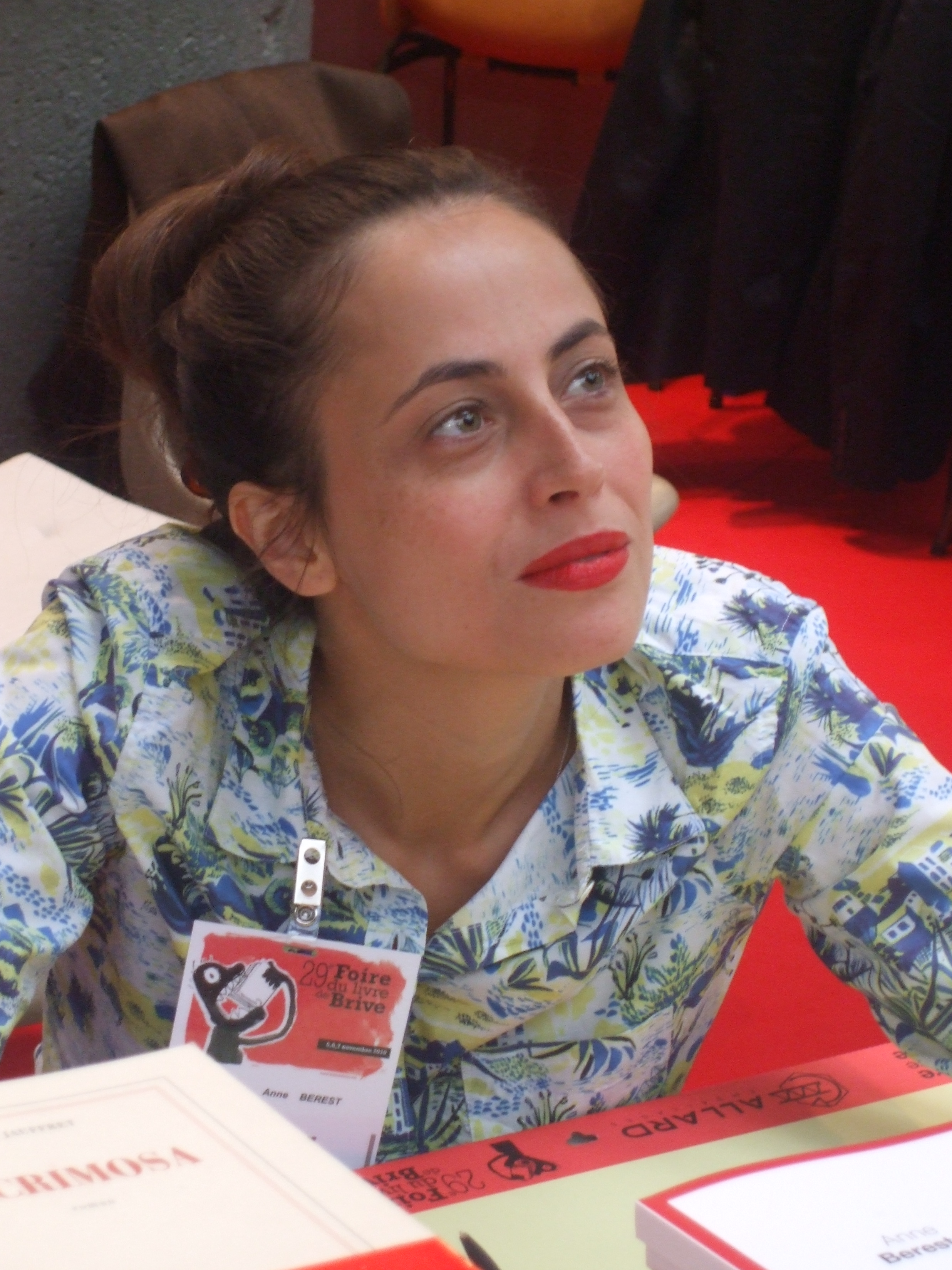 Anne Berest, french writer, Brive la Gaillarde book fair, France, 2010 11 06